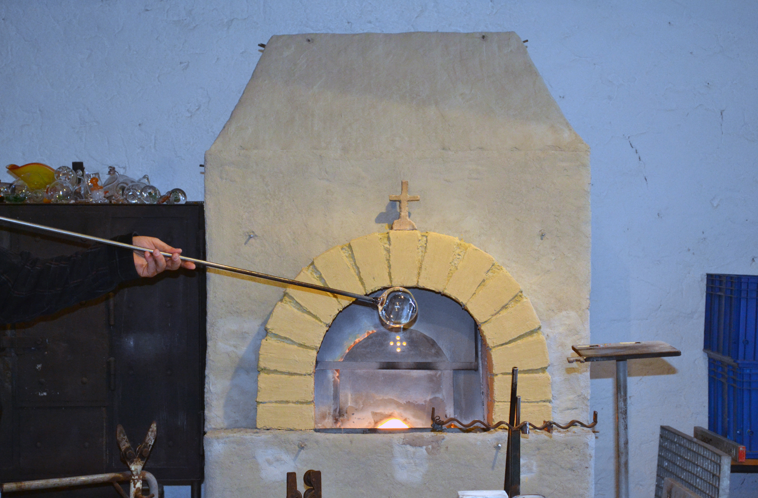 «Glass dream» — Peter Dolinaj.